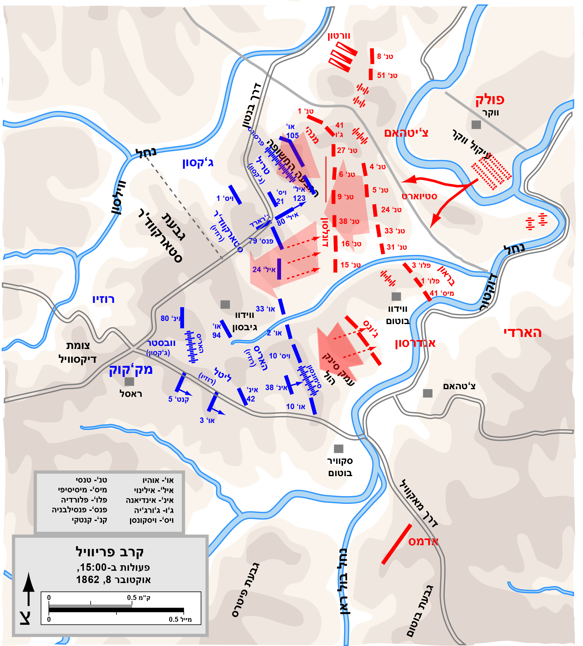 Map of the Battle of Perryville of the American Civil War. Drawn by Hal Jespersen in Adobe Illustrator CS5. Graphic source file is available at